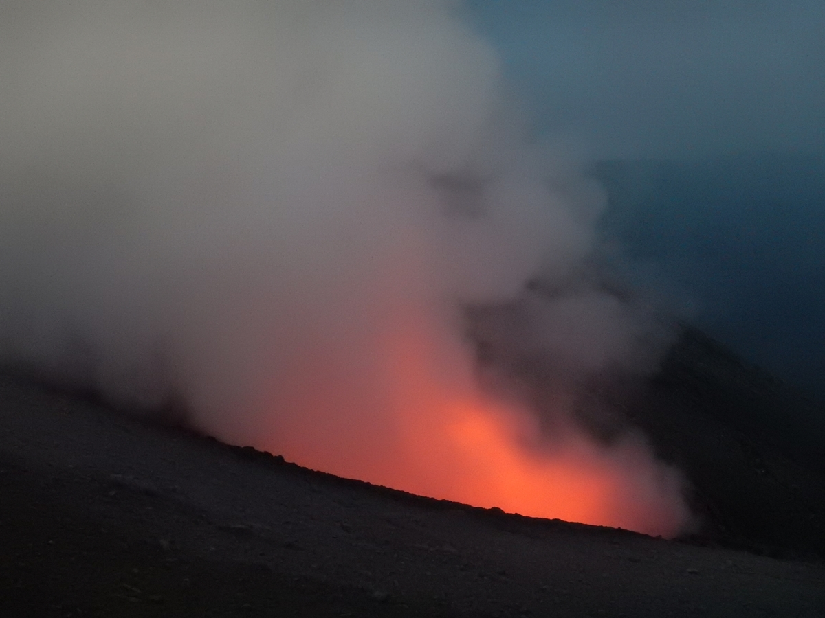 Lava lake in the central crater of Etna, Sicily